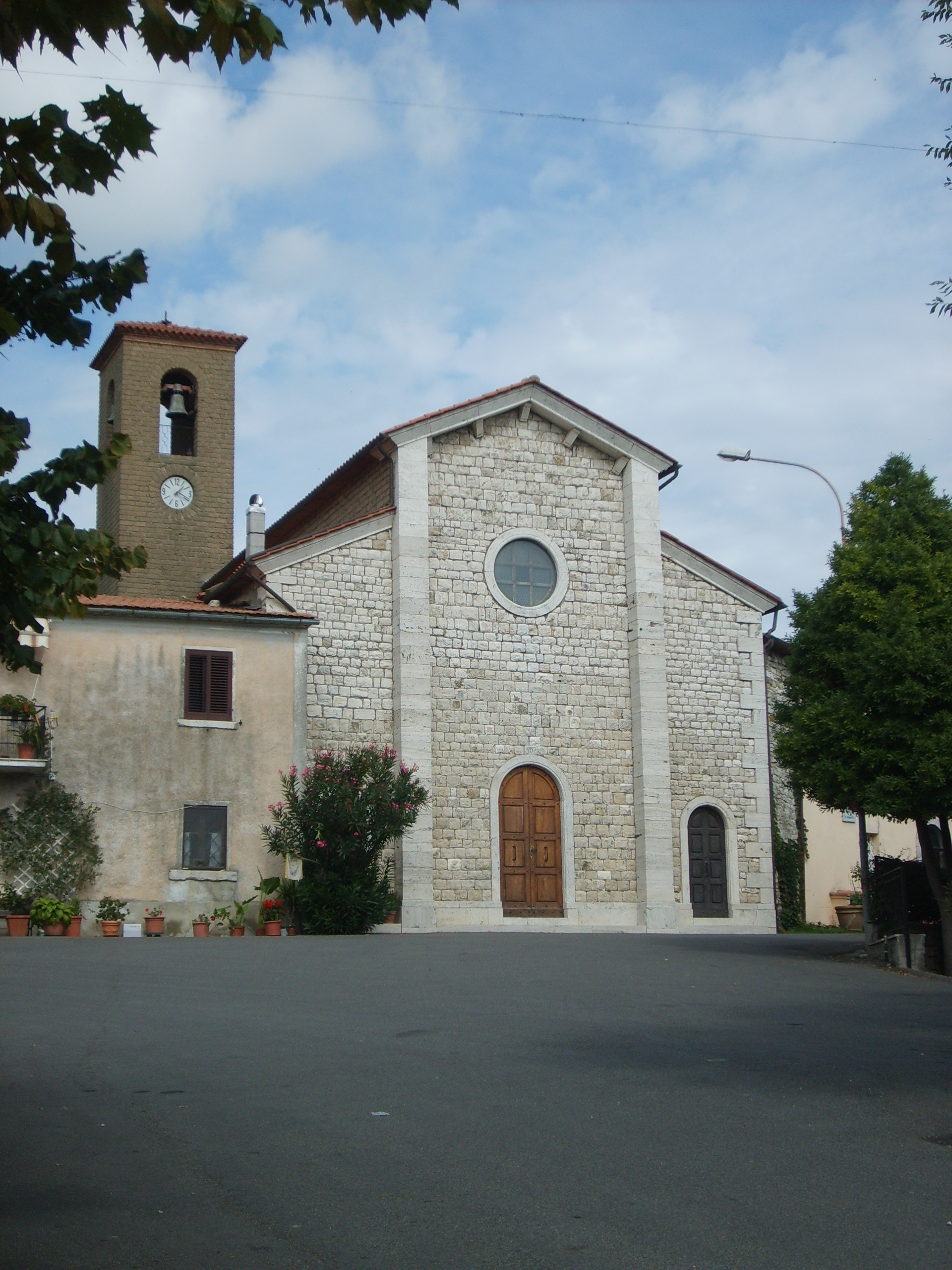 Church of Sant'Anna in Catabbio, Semproniano (Grosseto).